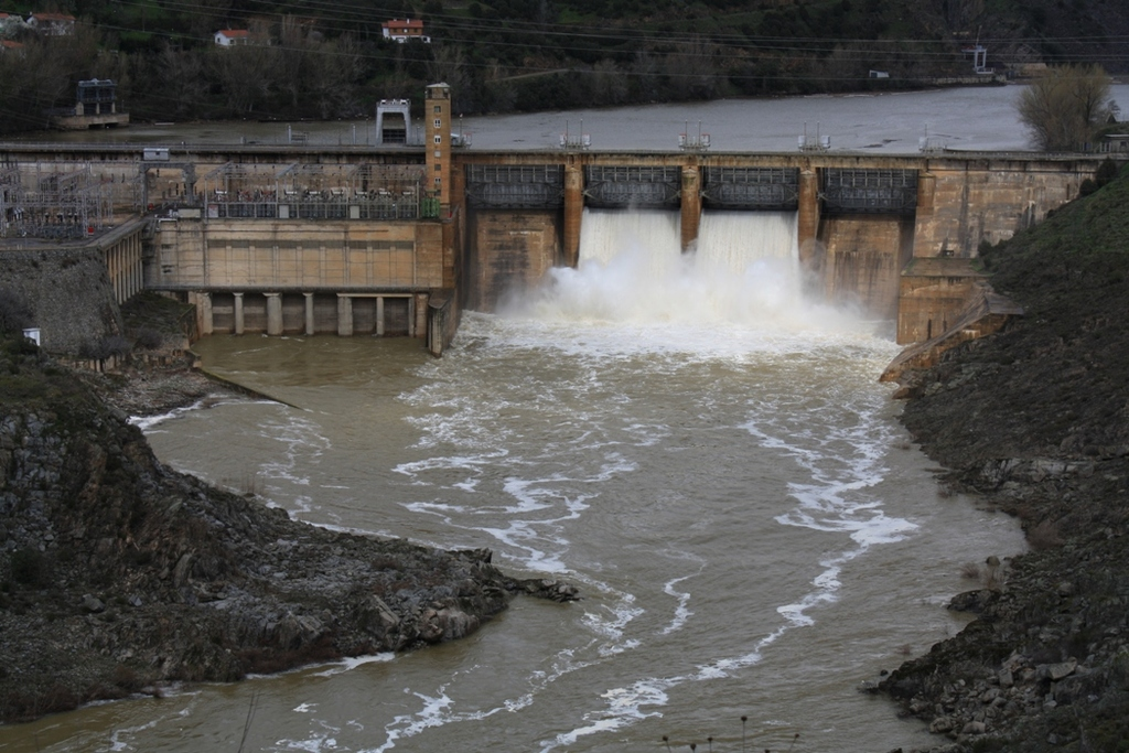 Dam of Villalcampo (Zamora-Spain)